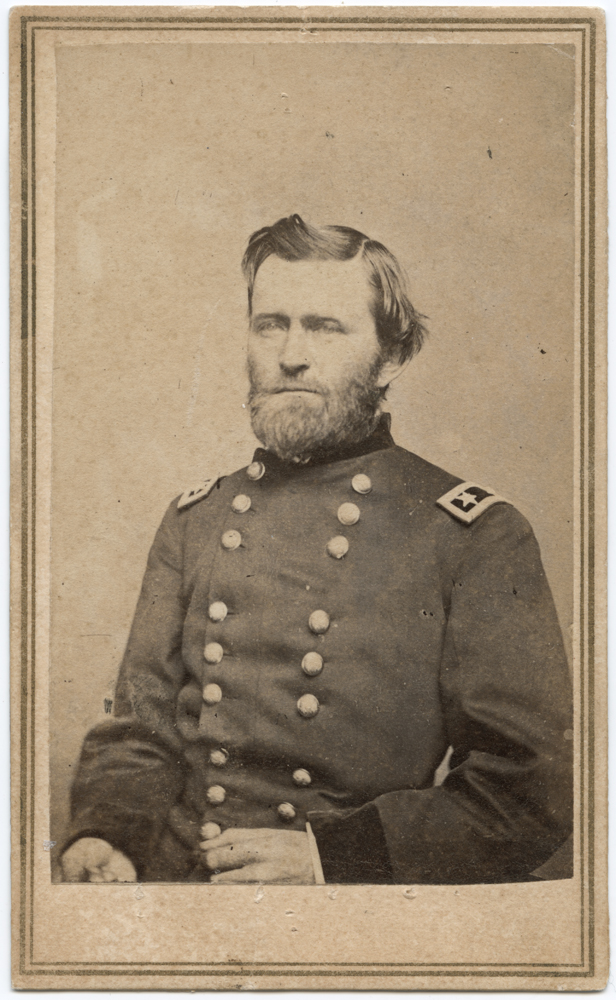 Title: [General Ulysses Simpson Grant, U.S. Army] Creator: Brady, Mathew B., ca. 1823-1896 [attrib.] Date: ca. 1861-1865 Part of: Physical Description: 1 photographic print on carte de visite mount; 10 x 6 cm. File: ag2007_0007_057c_grant.jpg Rights: Please cite DeGolyer Library, Southern Methodist University when using this file. A high-resolution version of this file may be obtained for a fee. For details see the web page. For other information, . For more information and to view the image in high resolution, View the